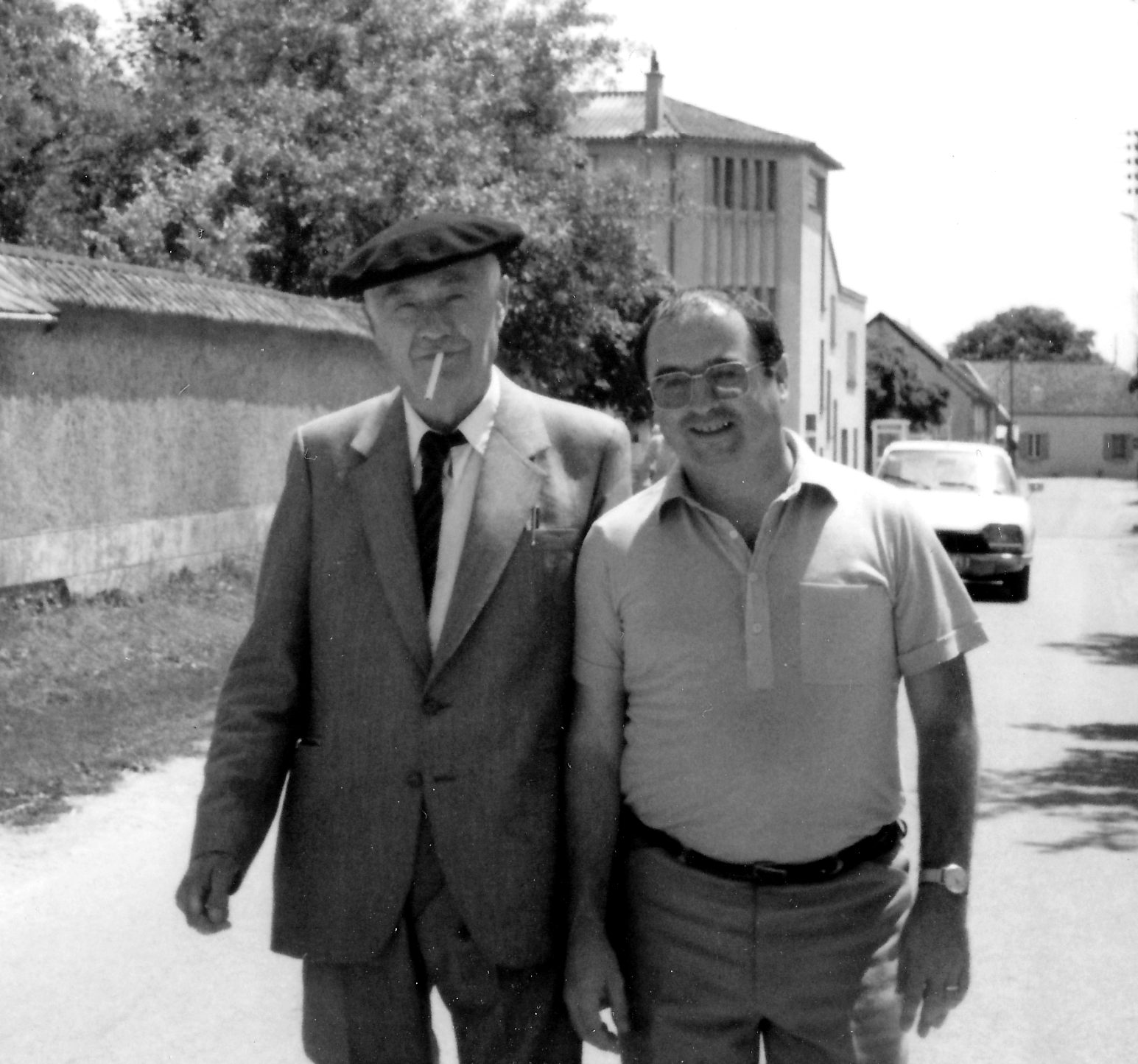 Gustave Thibon et Bernard Antony